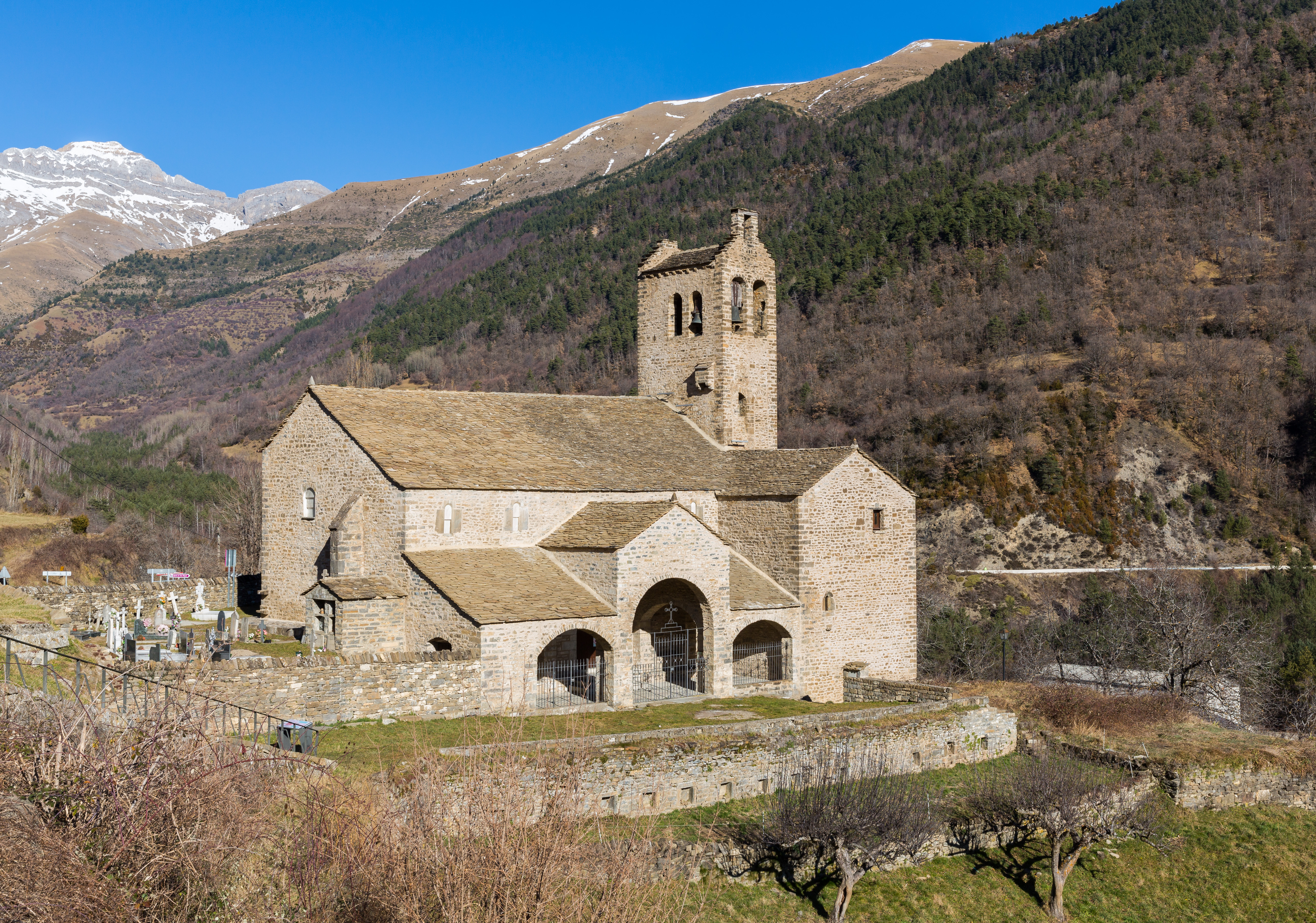 Romanesque church of St Michael, Linás de Broto (municipality of Torla-Ordesa), province of Huesca, Spain. The tower of the church dates from end of the 15th century and was used to watch for incursions from the other side of the Pyrenees. The church was constructed later, during the 16th century.